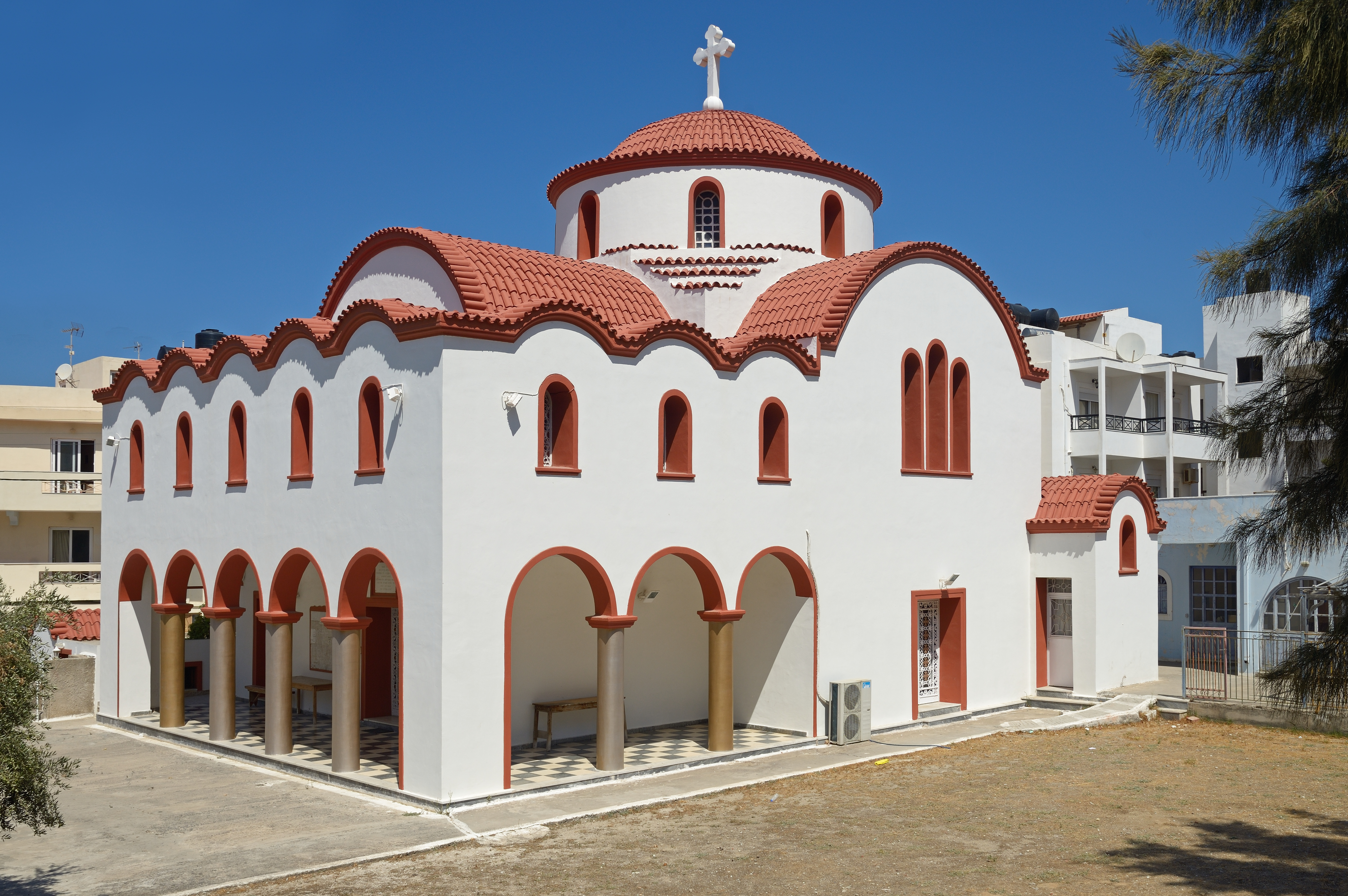 Church of Agios Apostolos in Pigadia. Karpathos, Greece